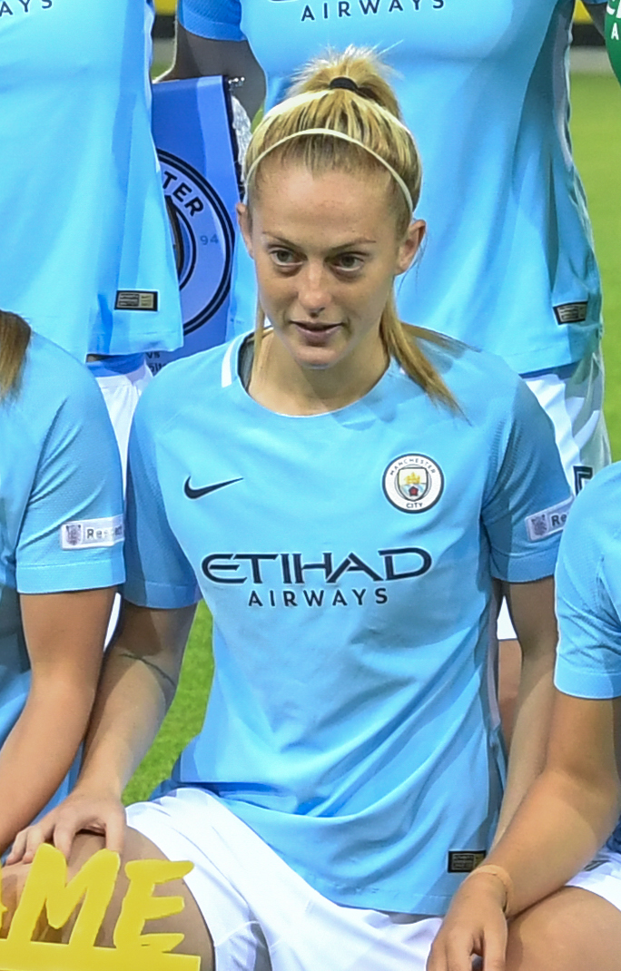 4/10/17, St. Poelten, Austria, sports, soccer, UEFA Women's Champions League - SKN St. Poelten vs Manchester City.